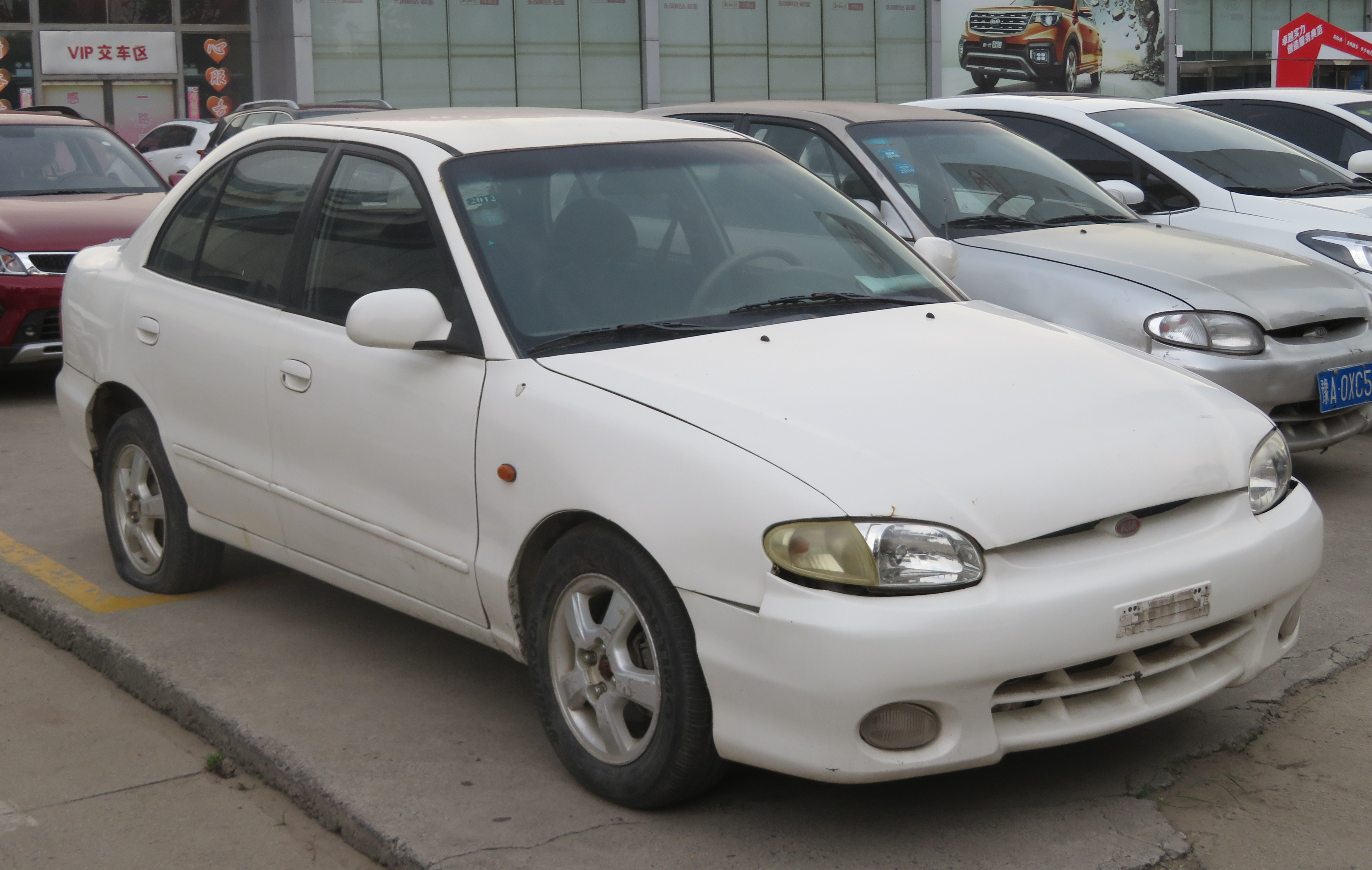 Photographed in Zhengzhou, Henan province, China